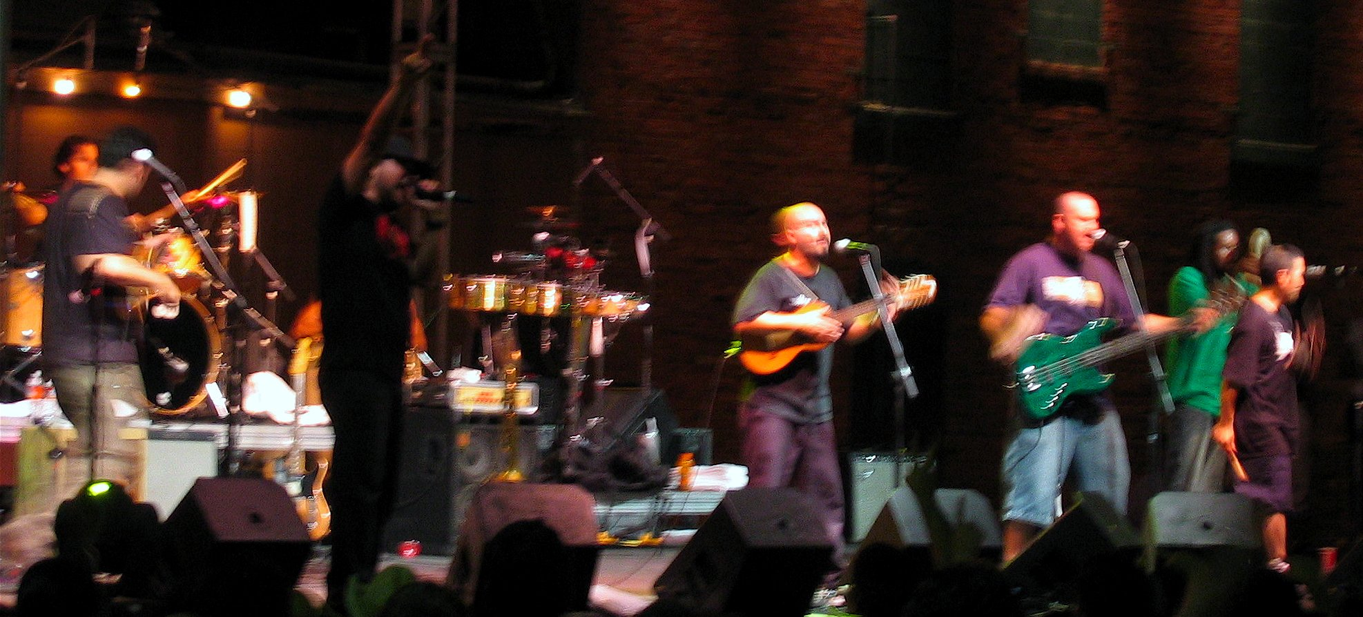 Ozomatli performing in Dallas, Texas, United StatesOzomatli.